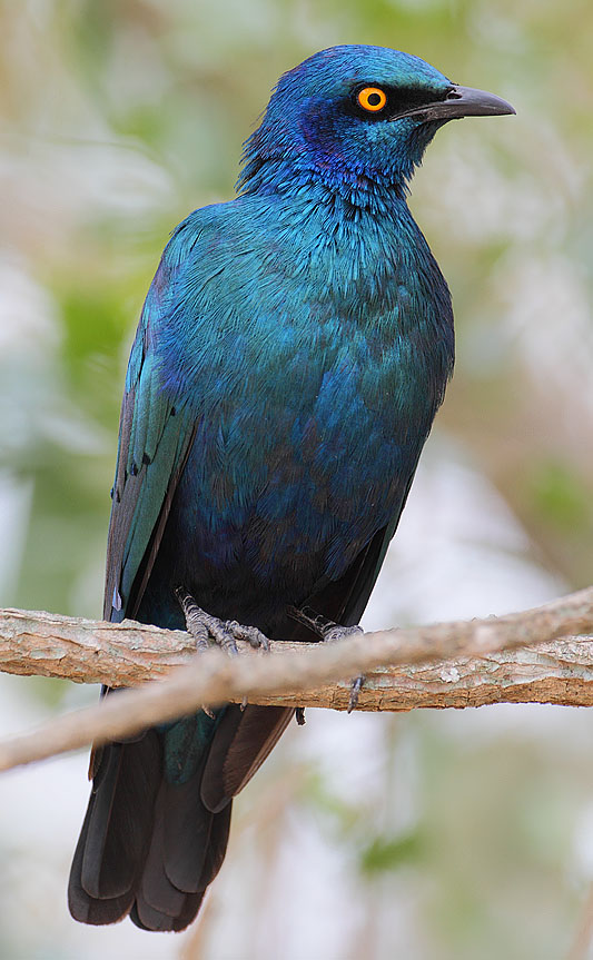 A Greater Blue-eared Starling at Ol Pejeta Conservancy, Kenya.